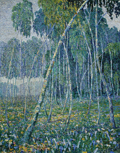 Ranitsa vyasny. Kudrevich